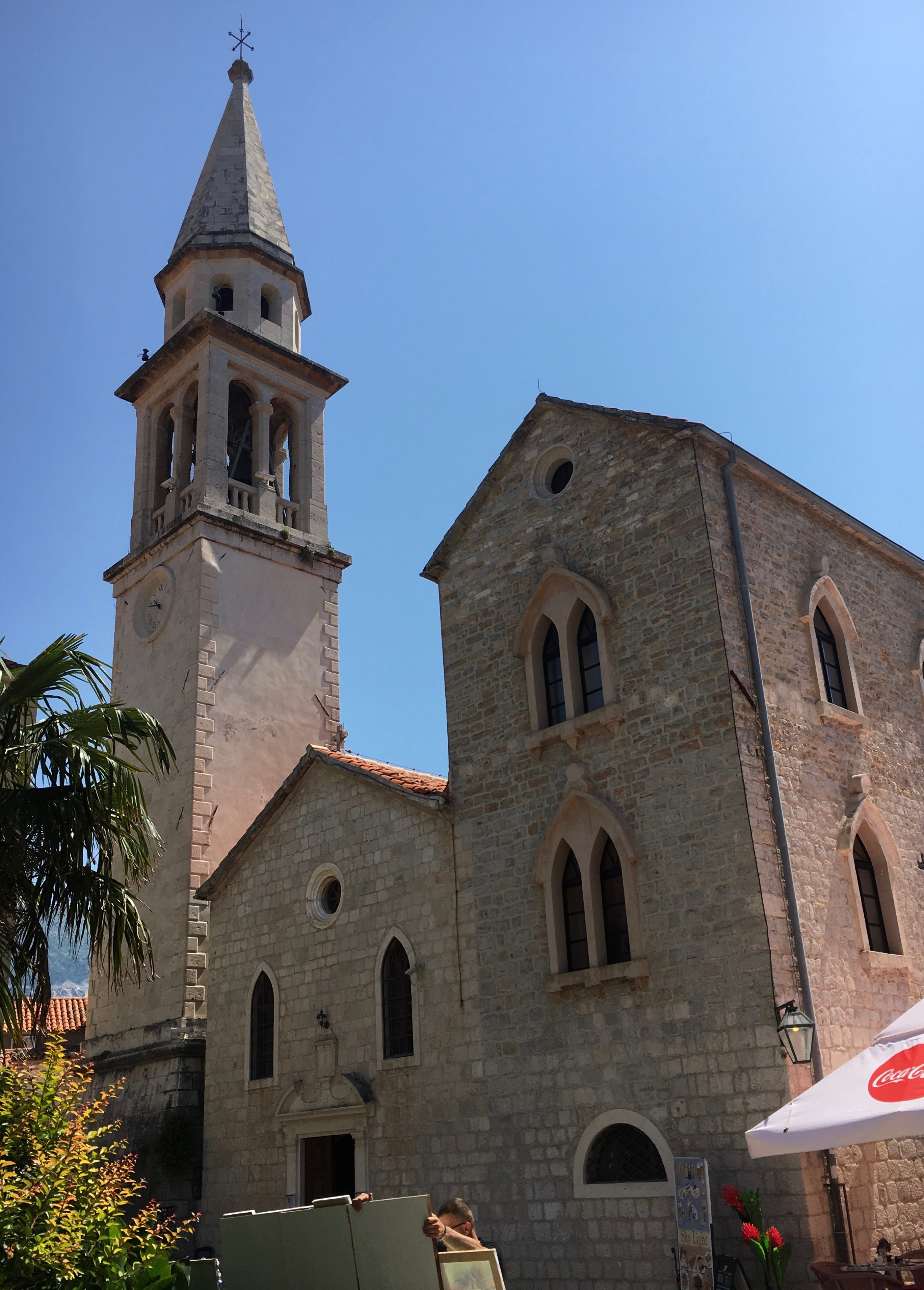 St.Ivan Church in Budva Old Town